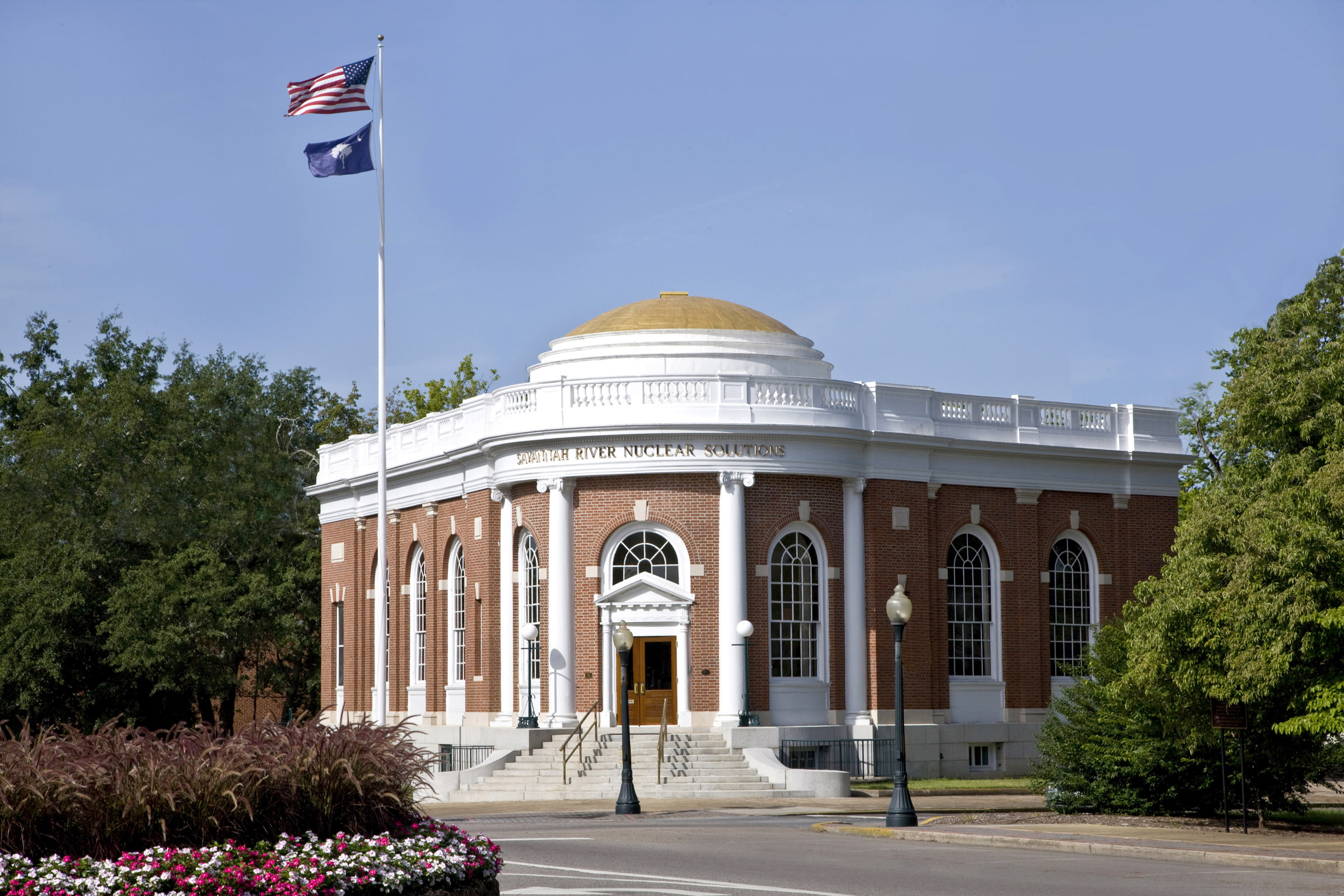 Old Aiken Post Office on the corner of Park Ave and Laurens St in beautiful downtown Aiken